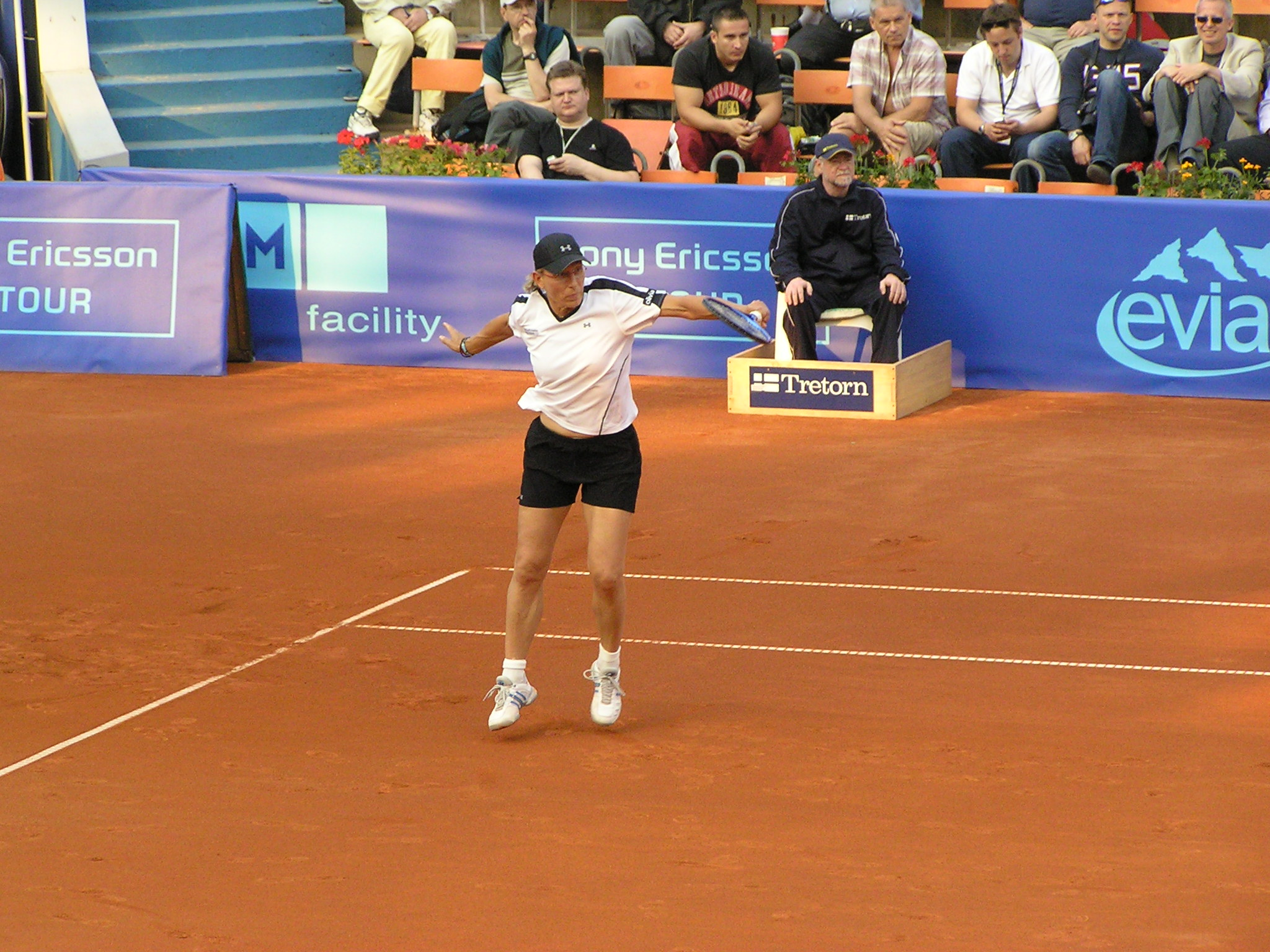 Martina Navrátilová ! Photo taken from ECM Prague Open 2006 ( - Prague, May 2006.